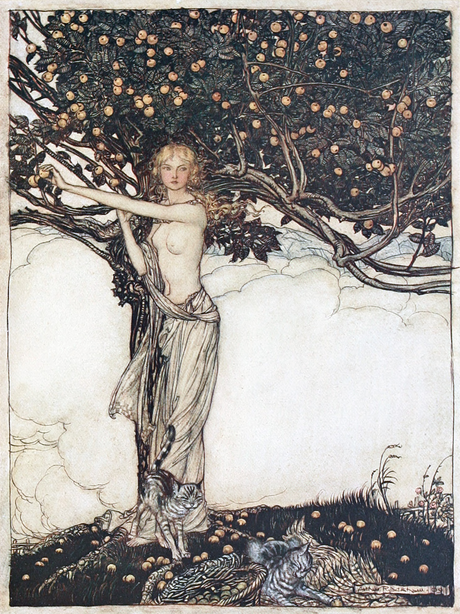 Freia, the fair one